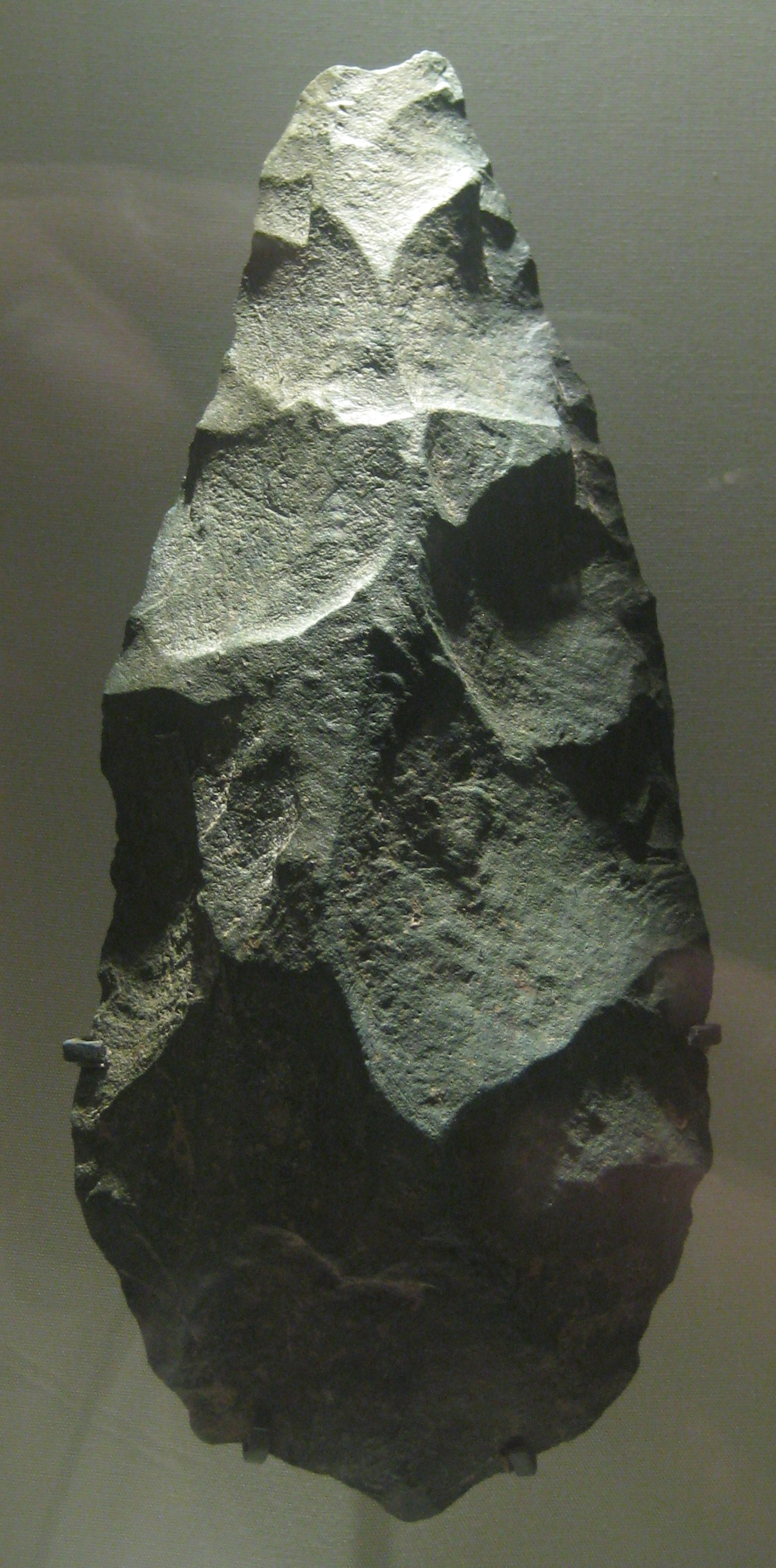 Olduvai handaxe, Lower Palaeolithic, about 1.2 million years old, Olduvai Gorge, Tanzania.